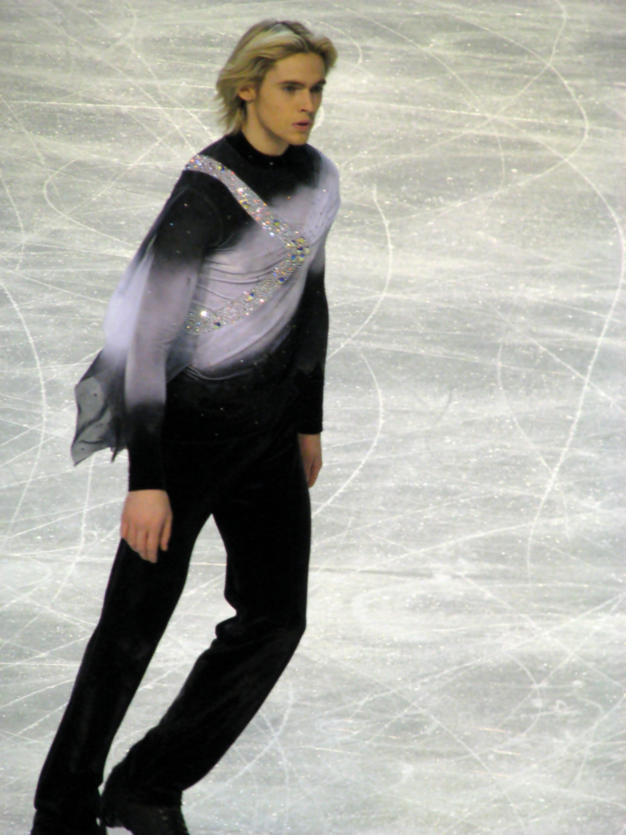 Lloyd Jones in 2010 European Figure Skating Championships